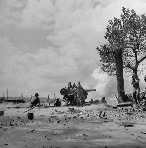 American soldiers fire from Dinard (a city liberated on August 1944) on Cezembre island.